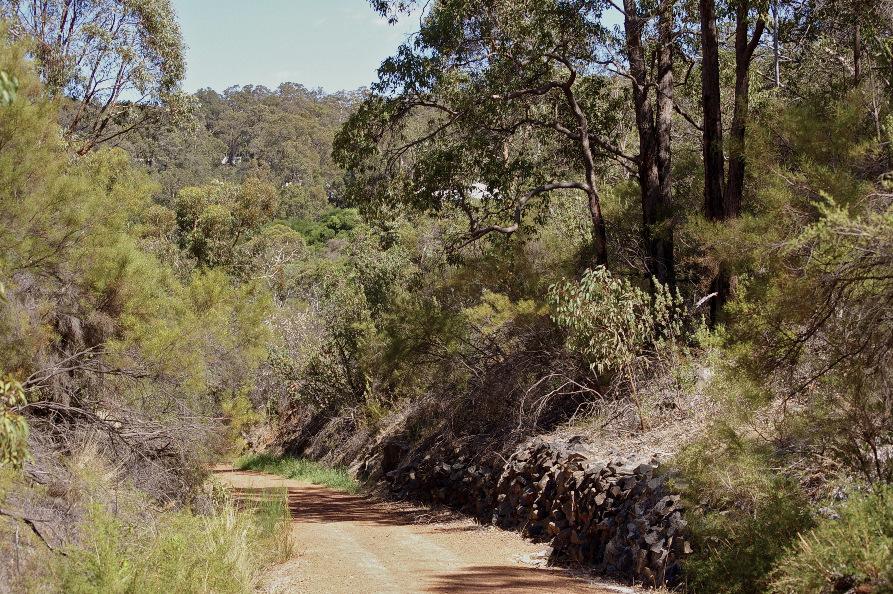 location on old railway formation between Darlington and Glen Forrest, Western Australia - now walking track